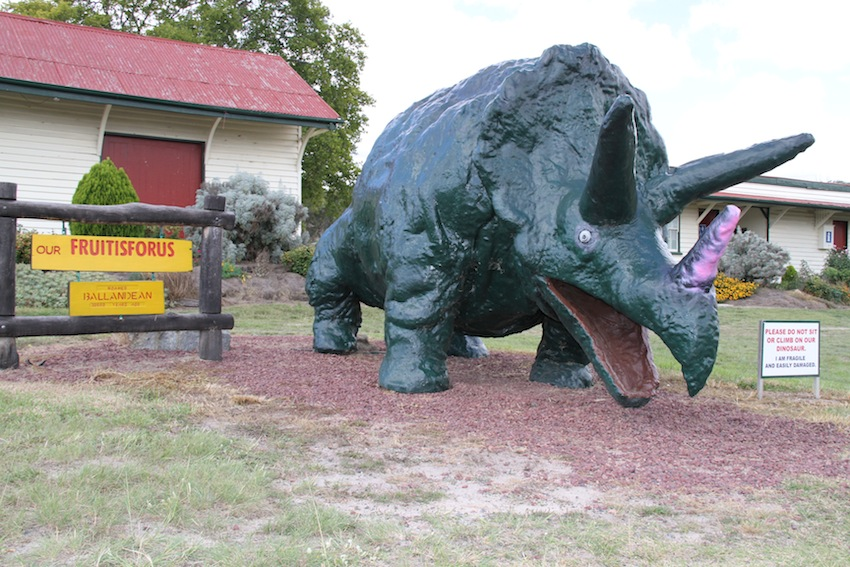 The Big Triceratops in Ballandean Australia